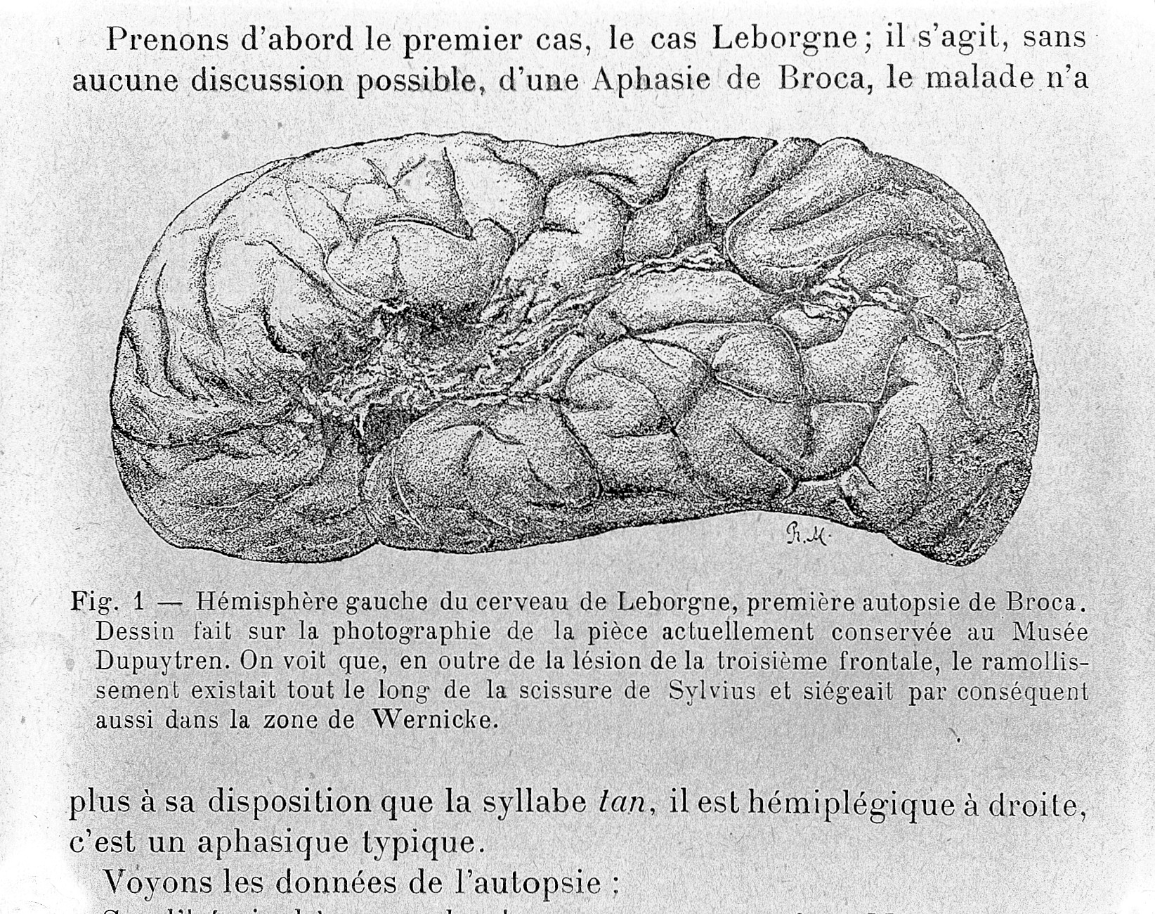 Diagram of the brain, left hemisphere General Collections